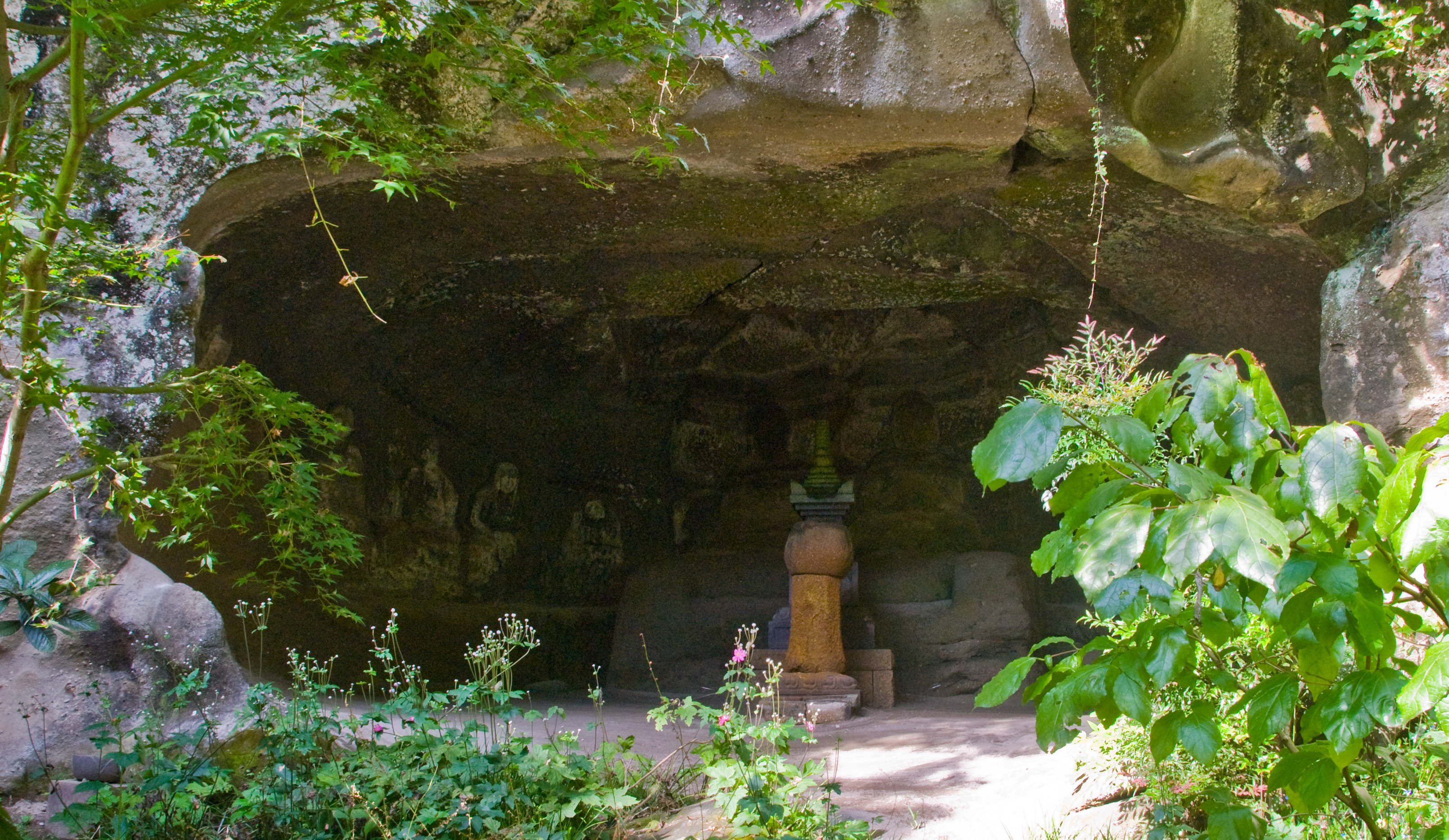 The Yagura at Meigetsu-in, the largest in Kamakura